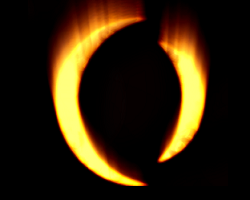 A Perfect Circle LOGO 2011 Michael John Stinsman of InvisibleStudio Productions. more info